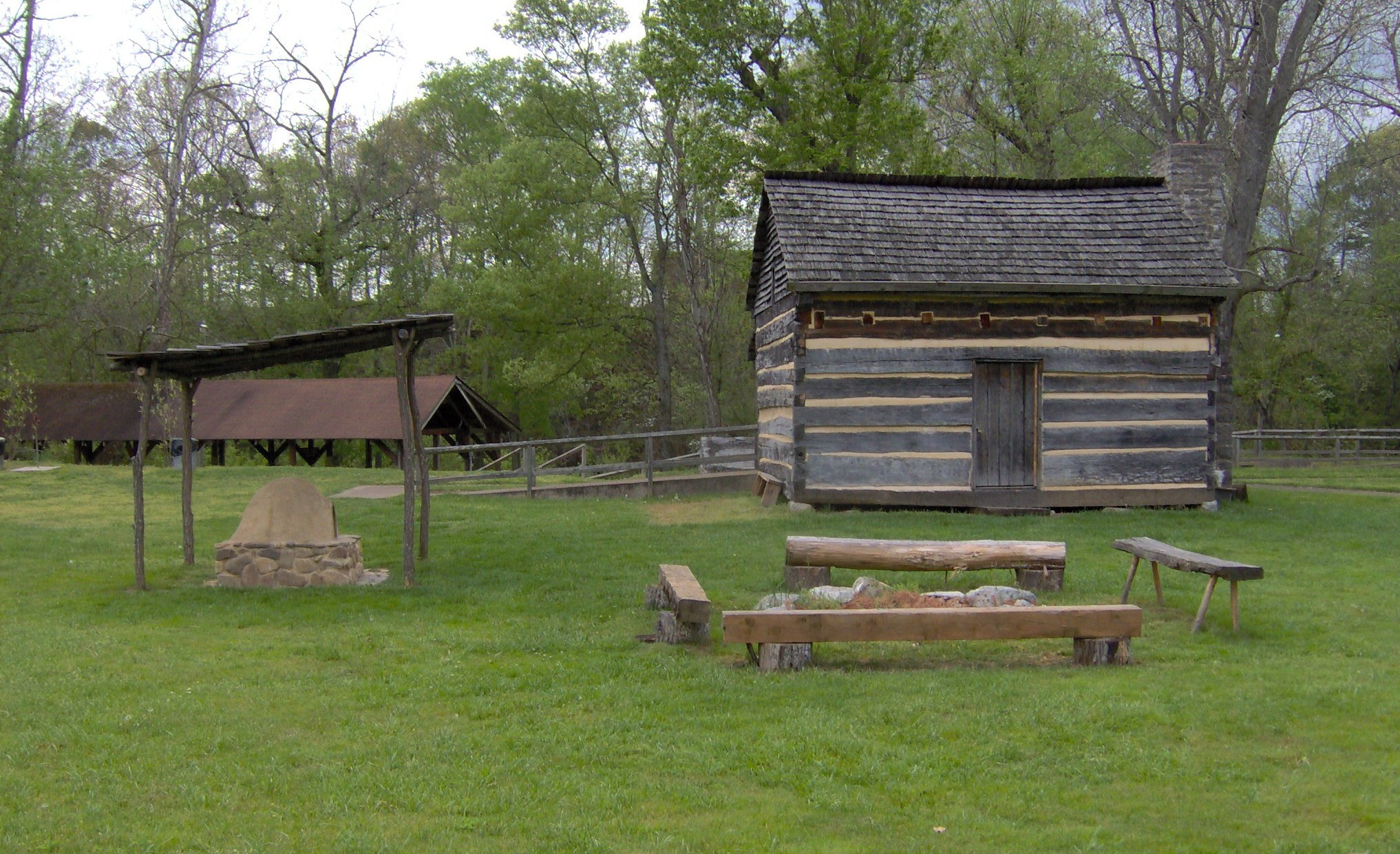 A replica of Davy Crockett's birth cabin at Davy Crockett State Park in Greeneville, Tennessee, in the southeastern United States. The cabin was built in the 1950s and rebuilt in 1970s using logs from a nearby Stonecypher family cabin. According to Stonecypher family lore, the Stonecypher cabin had been built out of logs taken from the original Crockett cabin.